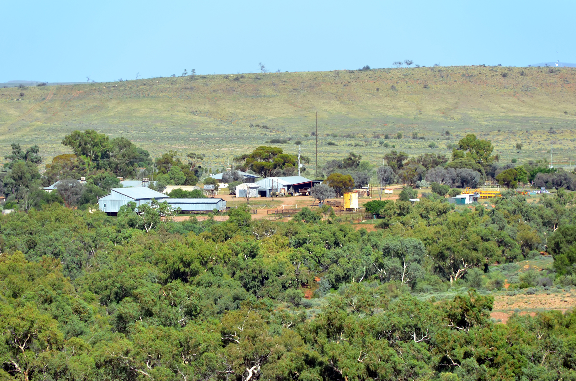 Overview of Fowlers Gap Arid Zone Research Station - Faculty of Science,University of New South Wales, Australia